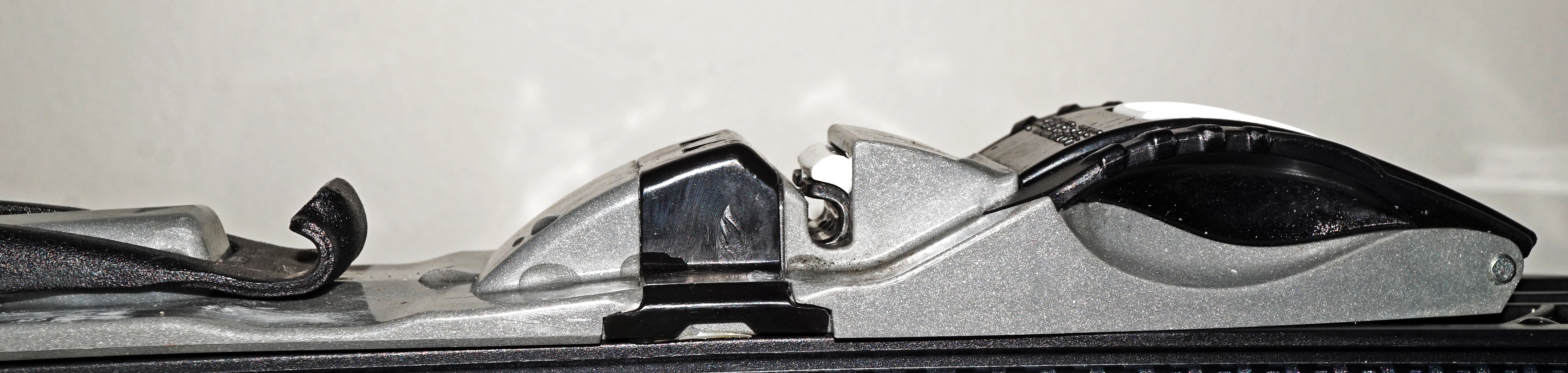 Side view of SNS Pilot binding. Attached to skate skies.